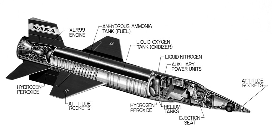 RCS thrusters airplane X-15